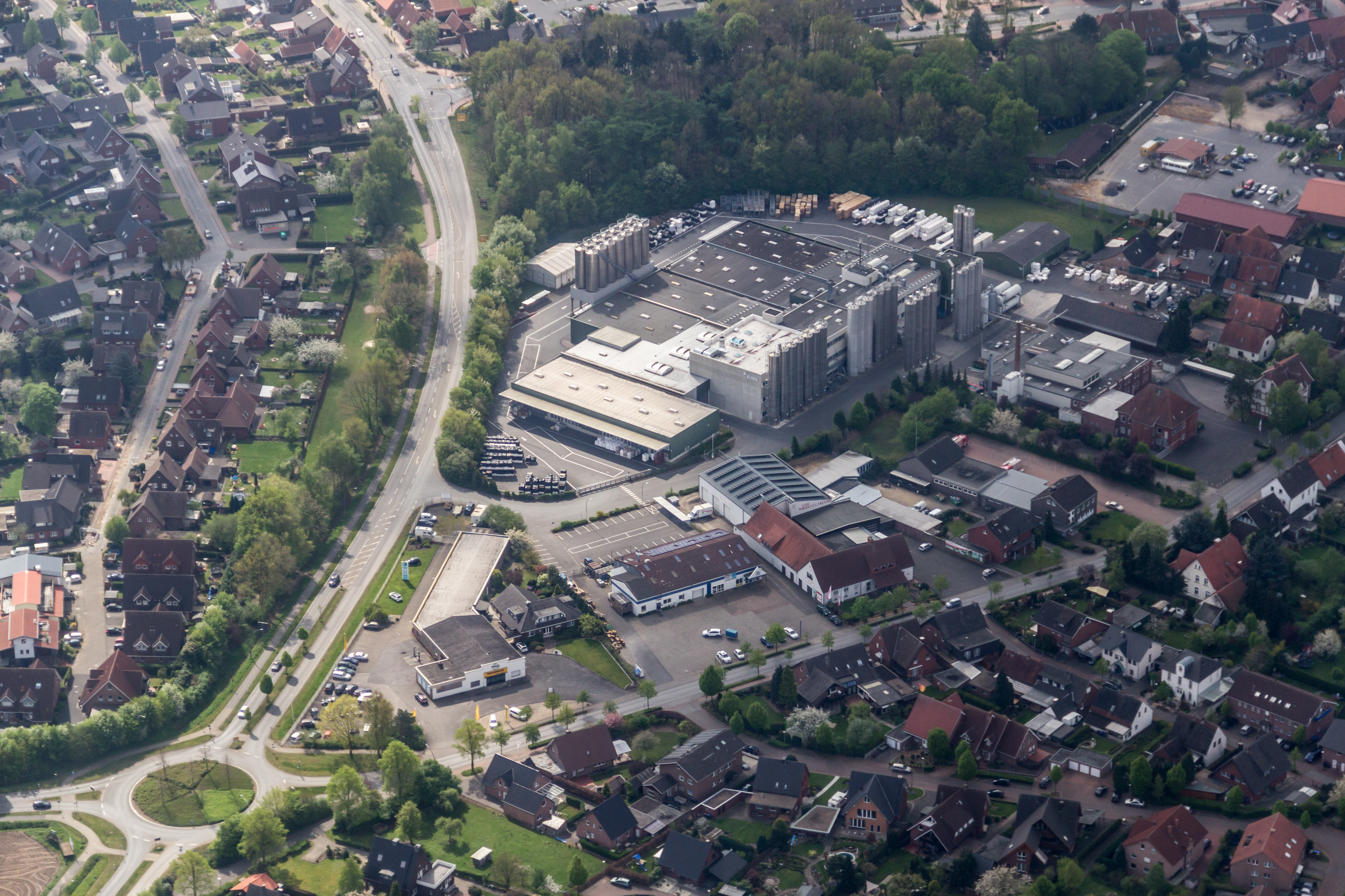 Velen, North Rhine-Westphalia, Germany